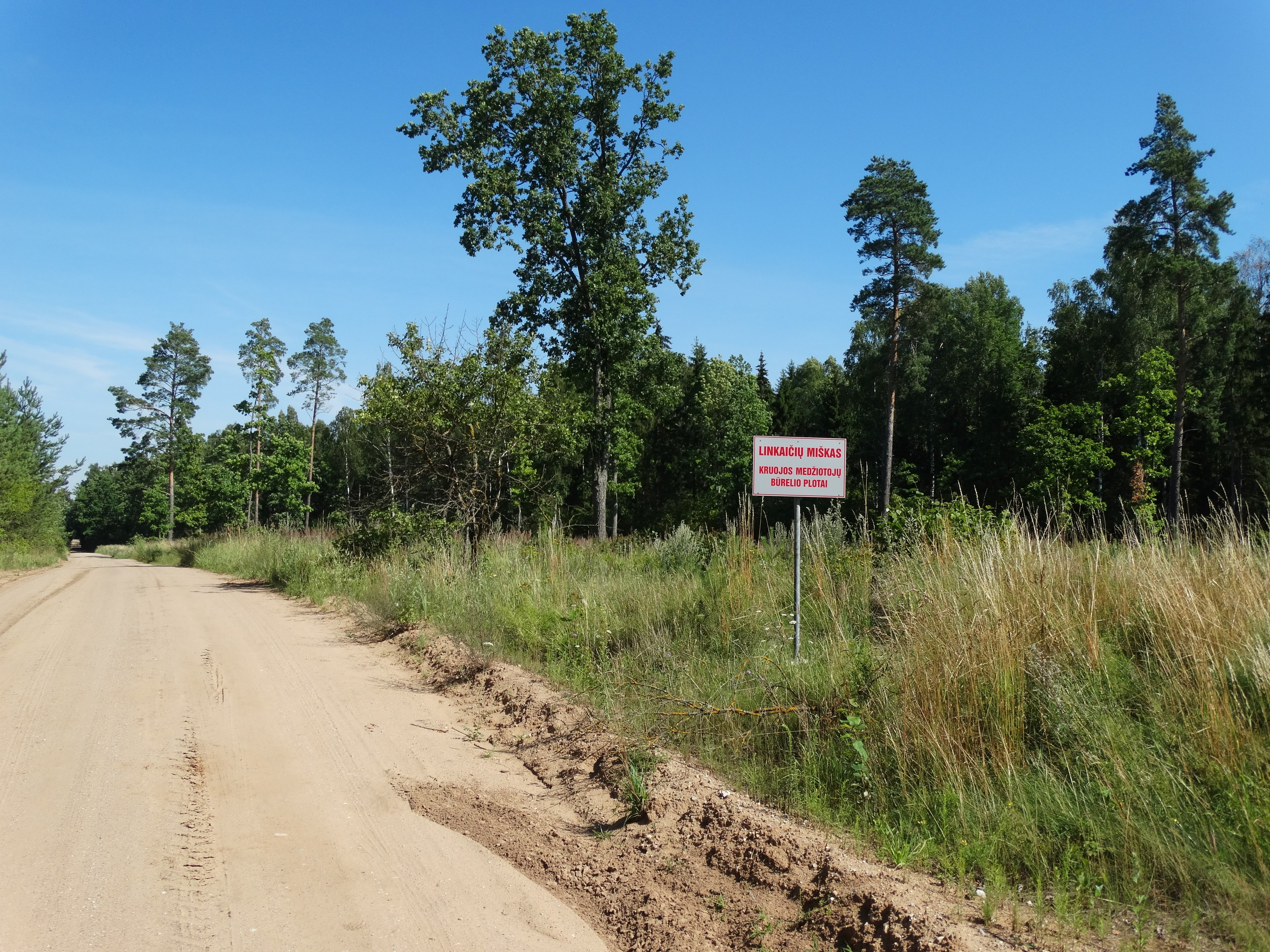 Linkaičiai forest, Radviliškis district, Lithuania